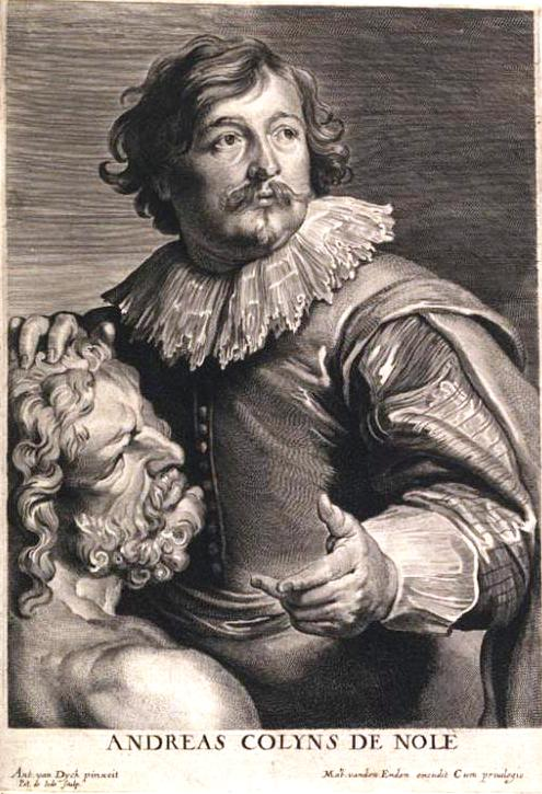 Portrait of the Flemish sculptor Andreas de Nole (1598-1638)